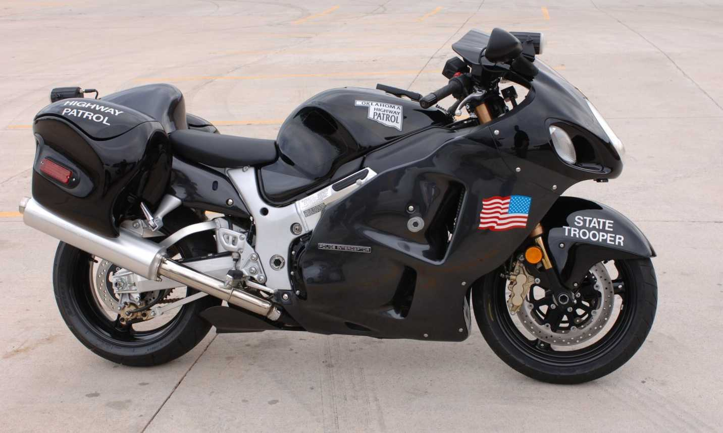 Ohp Hayabusa